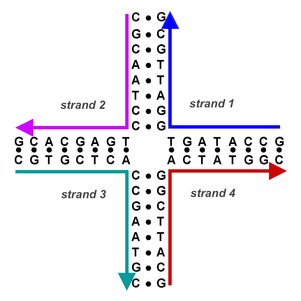 A DNA four-arm junction showing the nucleotide sequences. Original caption: "Figure 1. Basic DNA Structures for Self-Assembly (A) A four-arm junction"